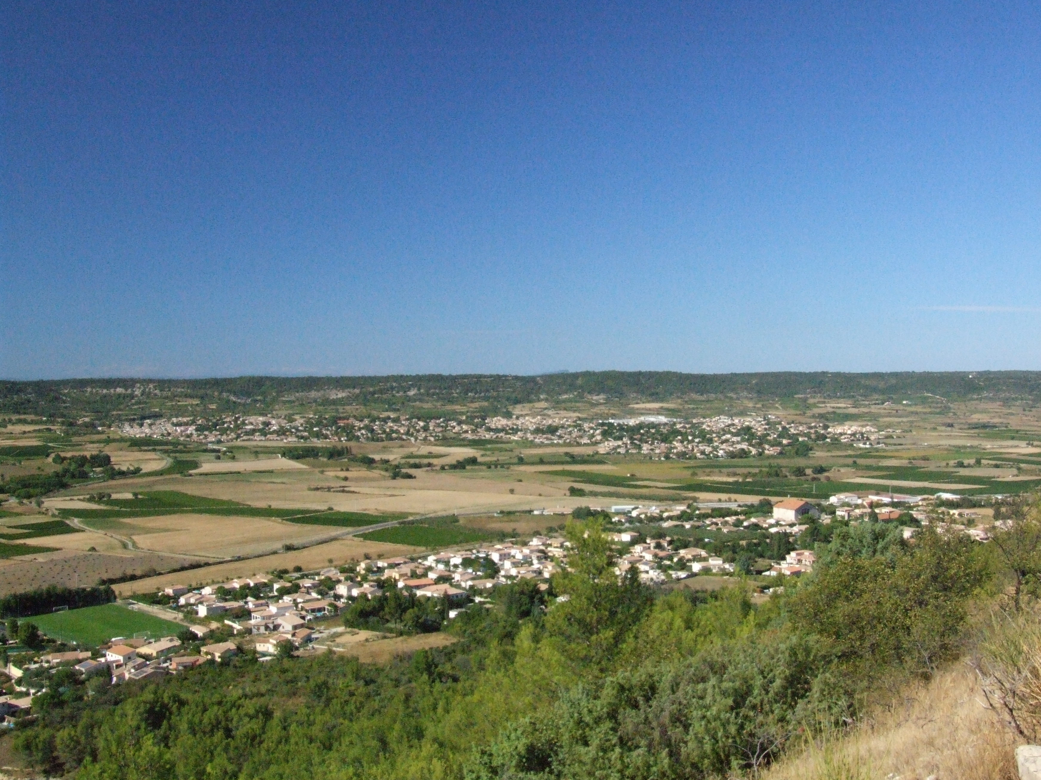 The village of Nages is dominated by the two Gaulish oppidums of Roque de Viou, and of Nages on the Roque de Viou hill to the north. Panorama. View over St Dionisy (foreground) St Côme and Clarensac.